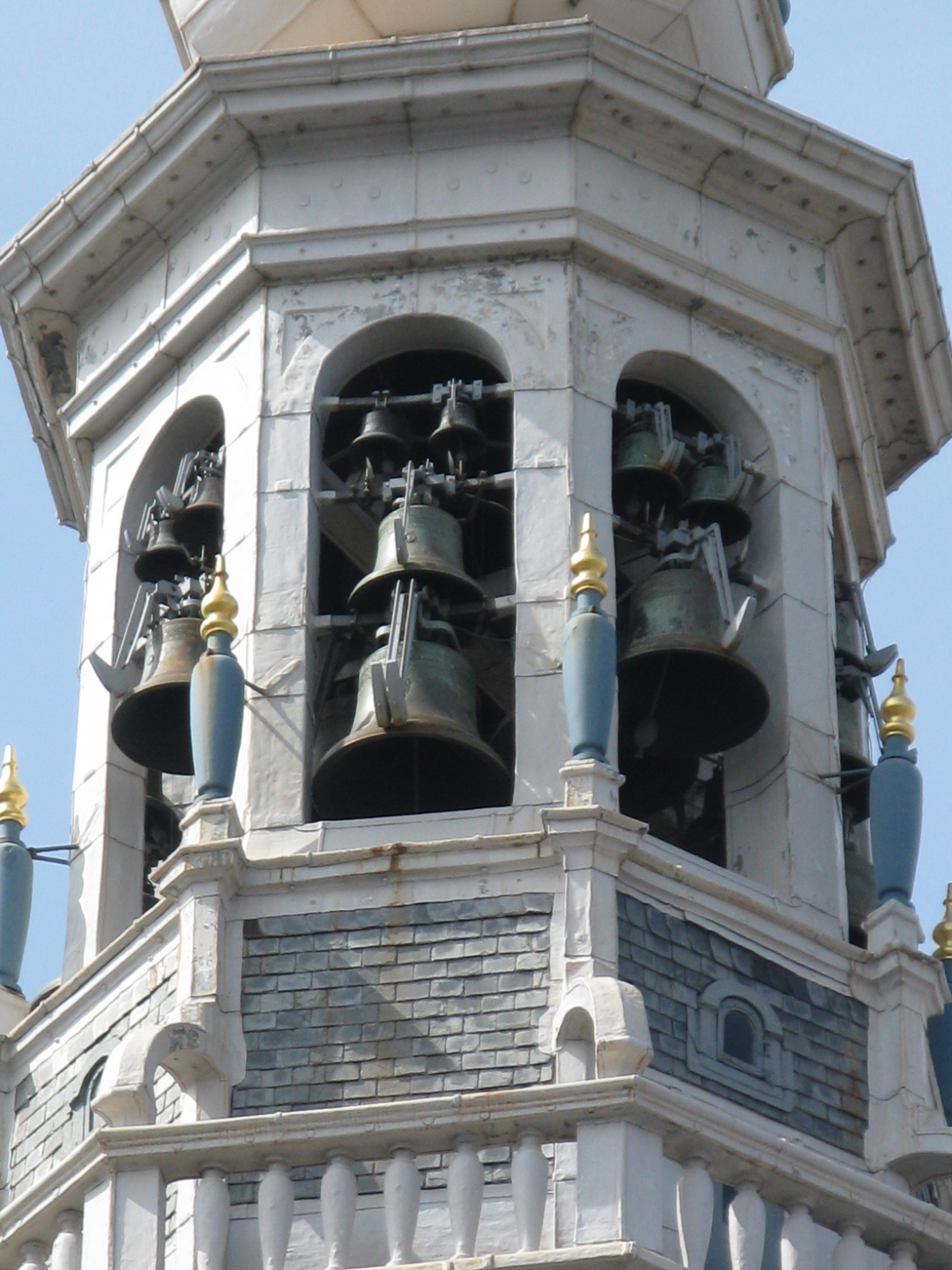 Carillon by Hemony in tower of Zuiderkerk (Zuidertoren) in Amsterdam.